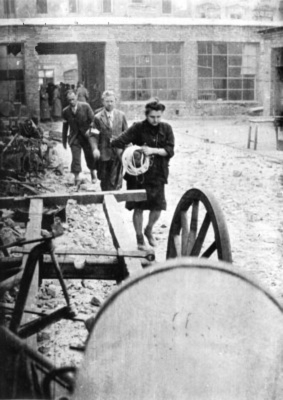 Warsaw Uprising: Insurgents from explosives unit of Koszta Company on Pociejów market by Zielna Street, prepare for attack on PASTa building. Explosive expert Barbara Bańkowska „Dorota” caries explosives and the fuse, behing her walks capitan Józef Paroński „Chevrolet” and Romuald Wirszyłło „Wiktor”.